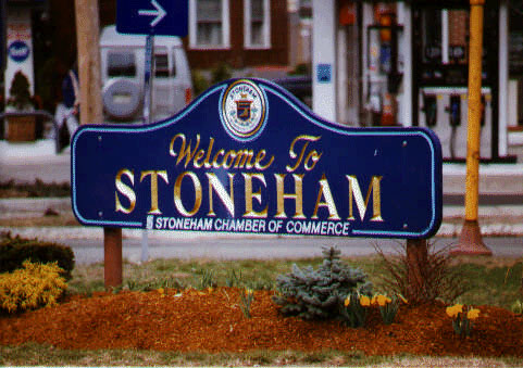 Photo was taken by Mark Haggerty in 1998.